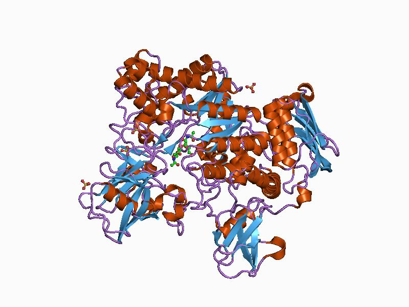 Cartoon representation of the molecular structure of protein registered with 1c7t code.